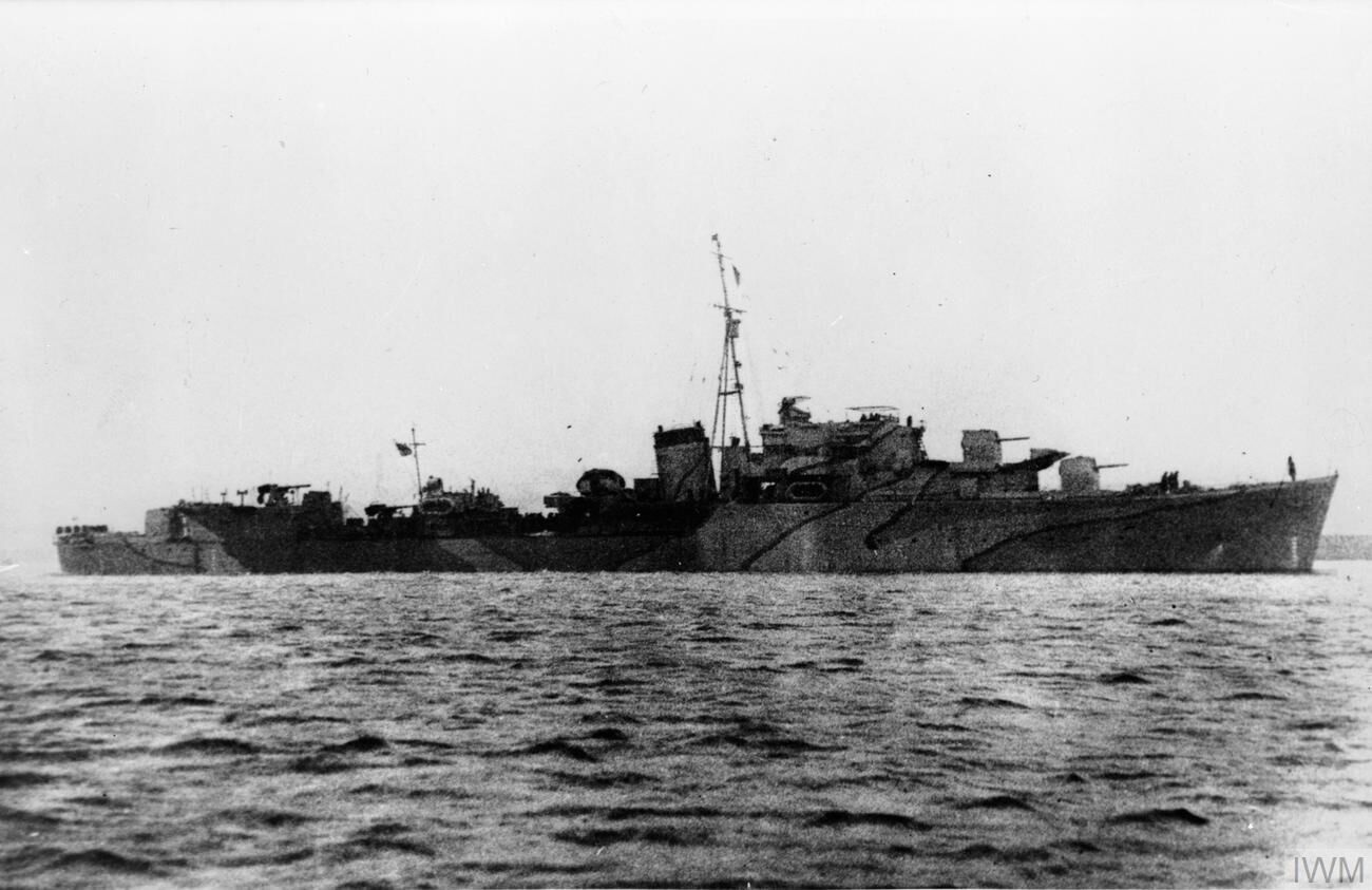 The Royal Navy during the Second World War HMS NAPIER underway, coastal waters.